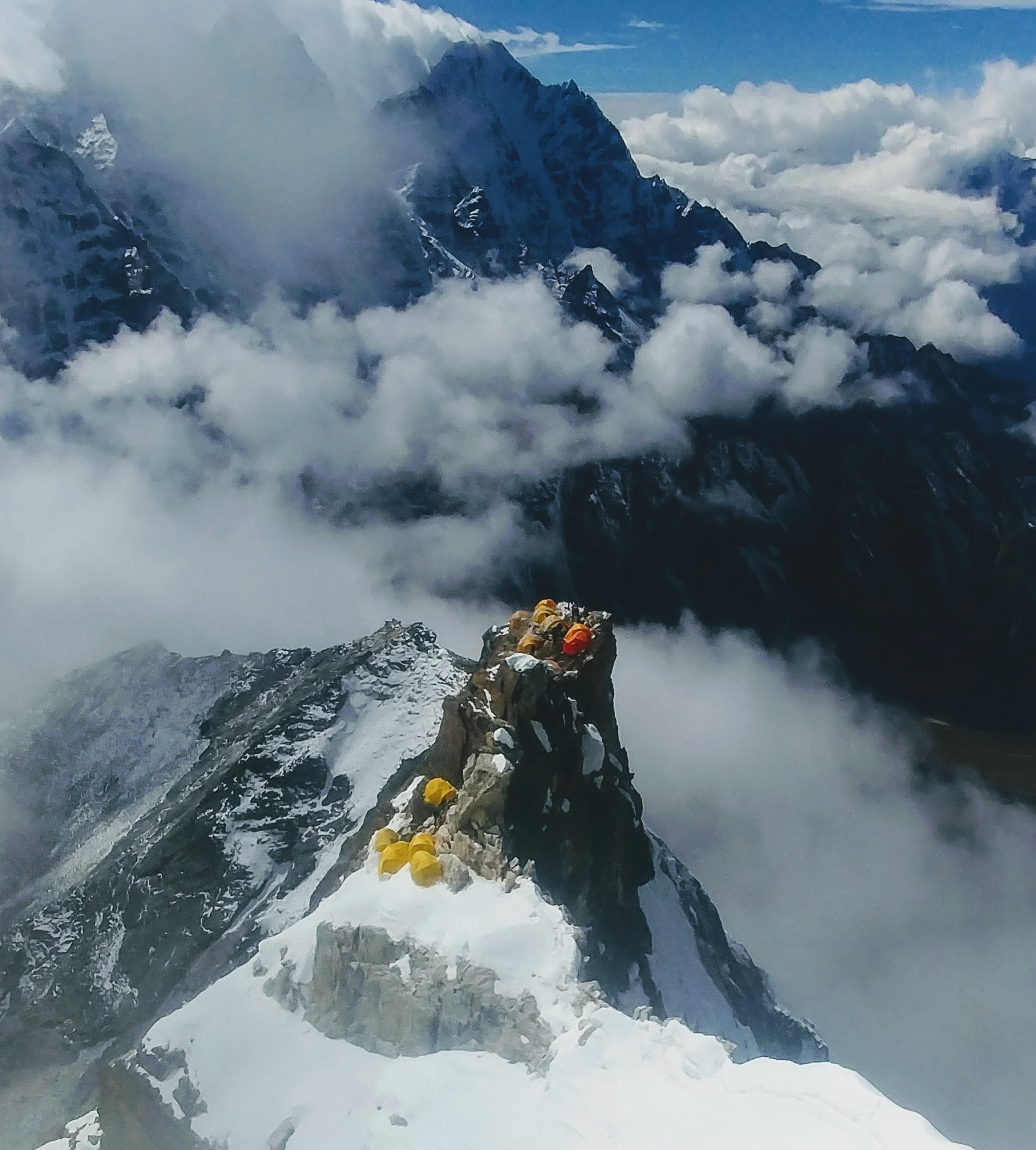 Ama Dablam's camp 2 has the capacity for about a dozen tents, and serves as the final resting point before the push to the summit.